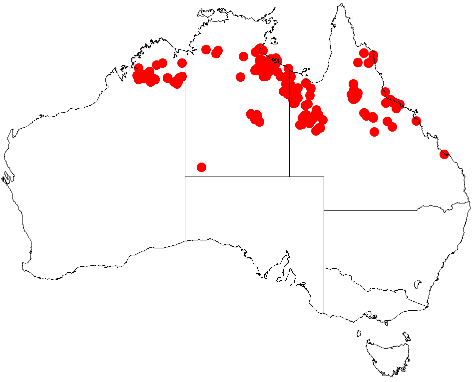 Acacia hemsleyi occurrence data from Australasian Virtual Herbarium downloaded from on December 8 2018